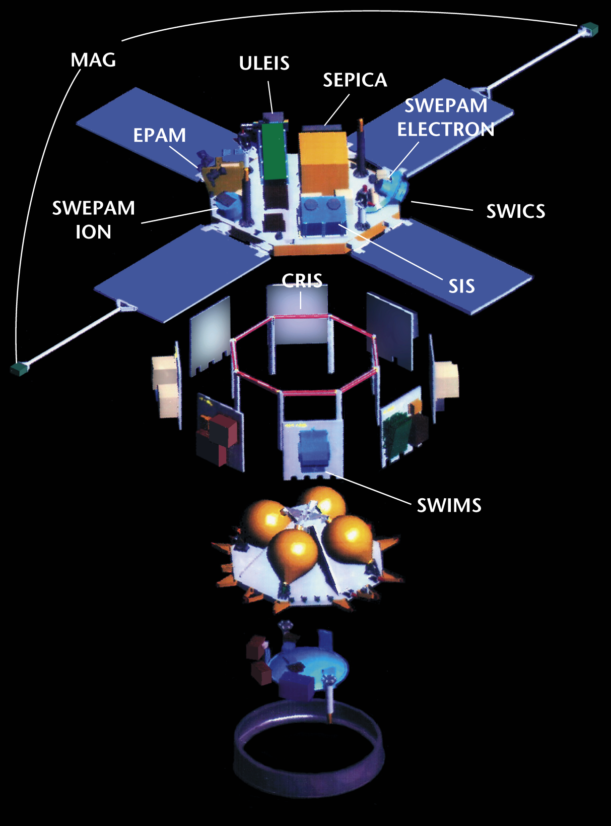 The parts of the Advanced Composition Explorer spacecraft.